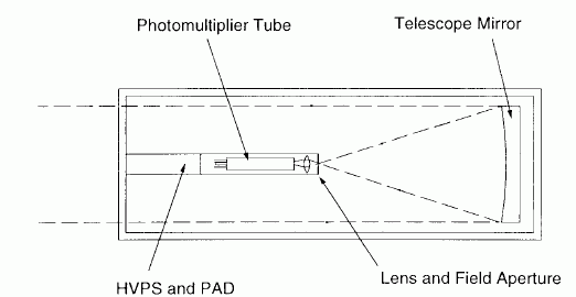 HSP instrument for Cassini